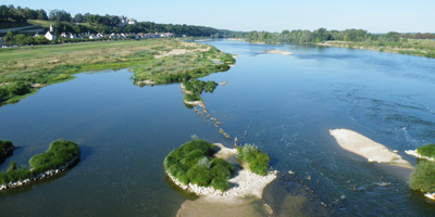 The Loire River, down the Castle of Chaumont-sur-Loire, Loir-et-Cher, France